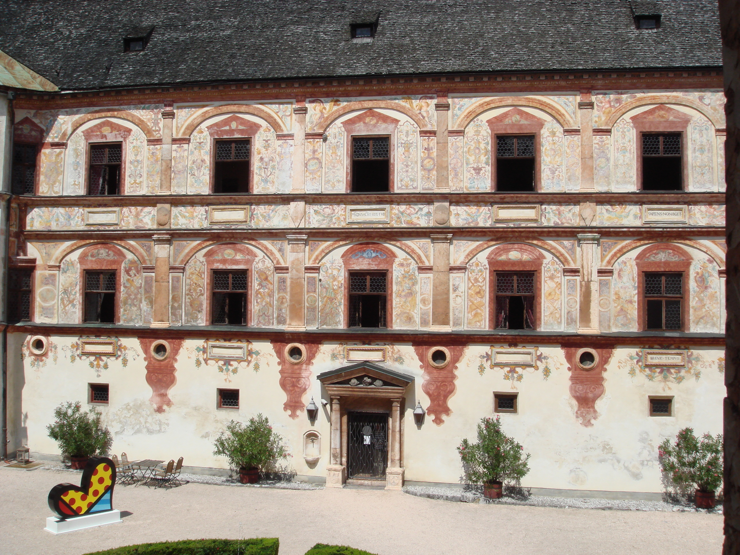 Wall of Tratzberg castle (in Tirol, Austria) from the castle's courtyard